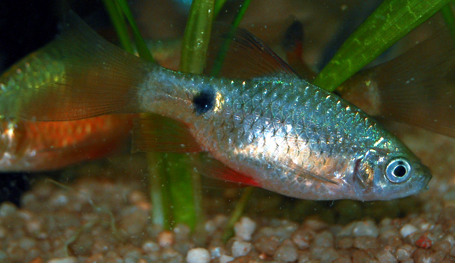 Female Rosy barb, Barbus conchonius